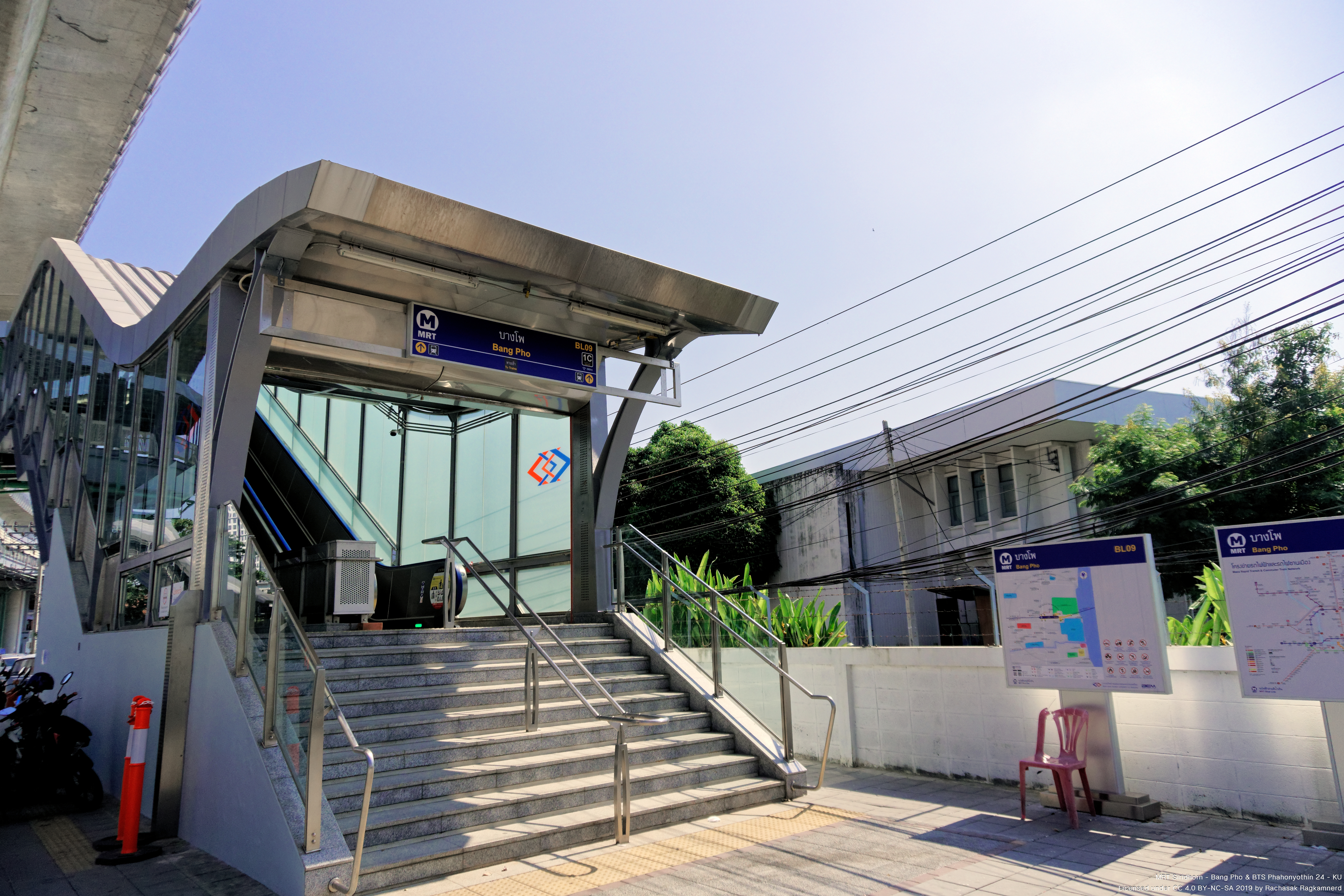 MRT Bang Pho - Exit 1 with info boards